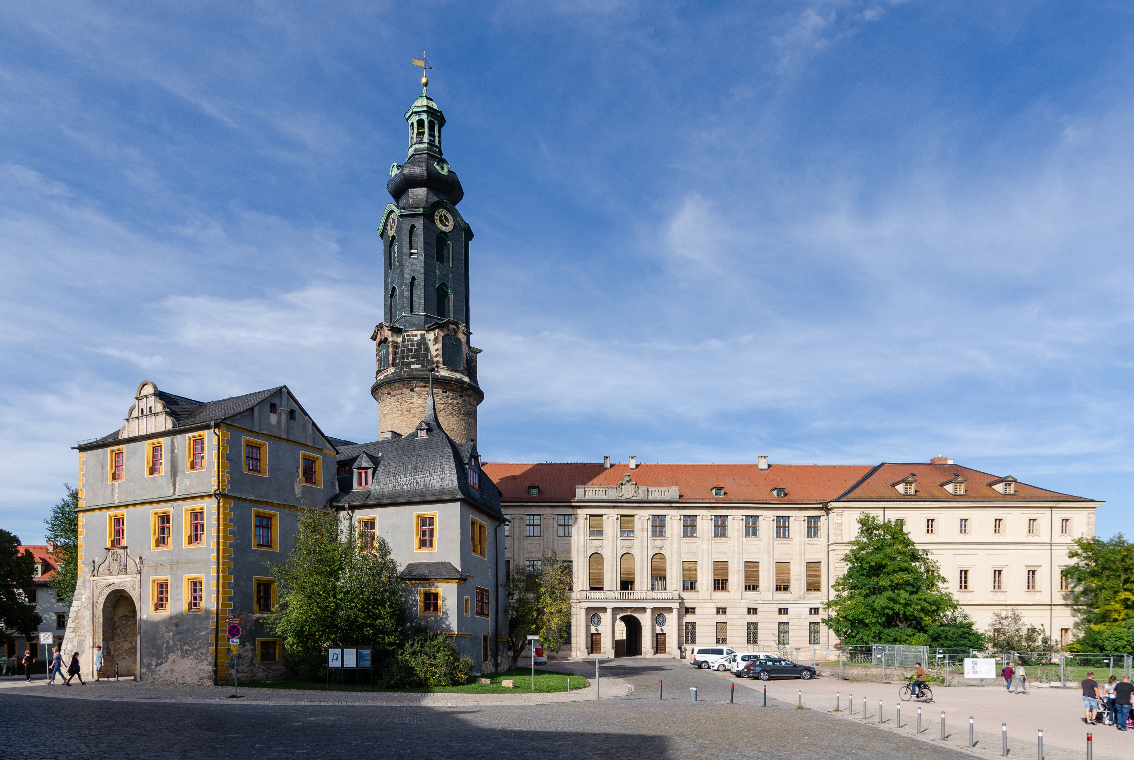 Weimar (Thuringia, Germany) – City Palace – Bastille, tower, south wing and forecourt